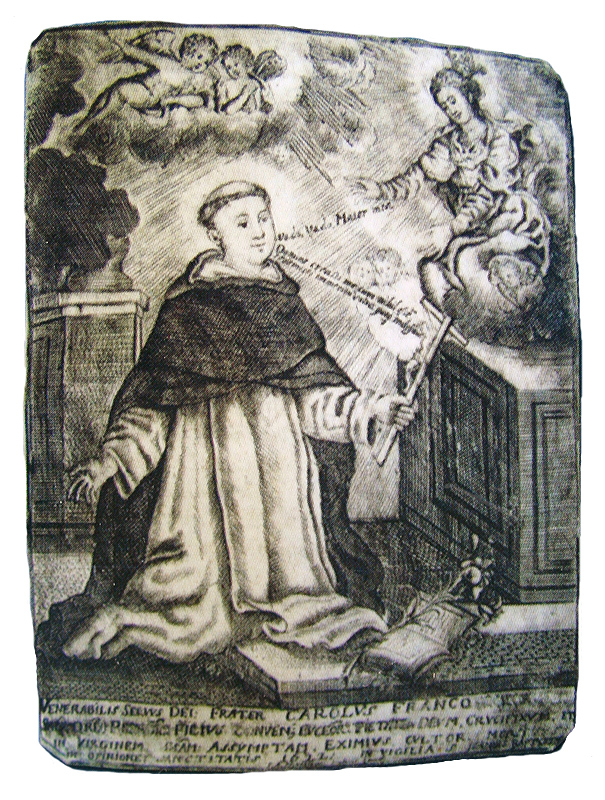 Carolvs Franco, member of Dominican Order in Lutsk